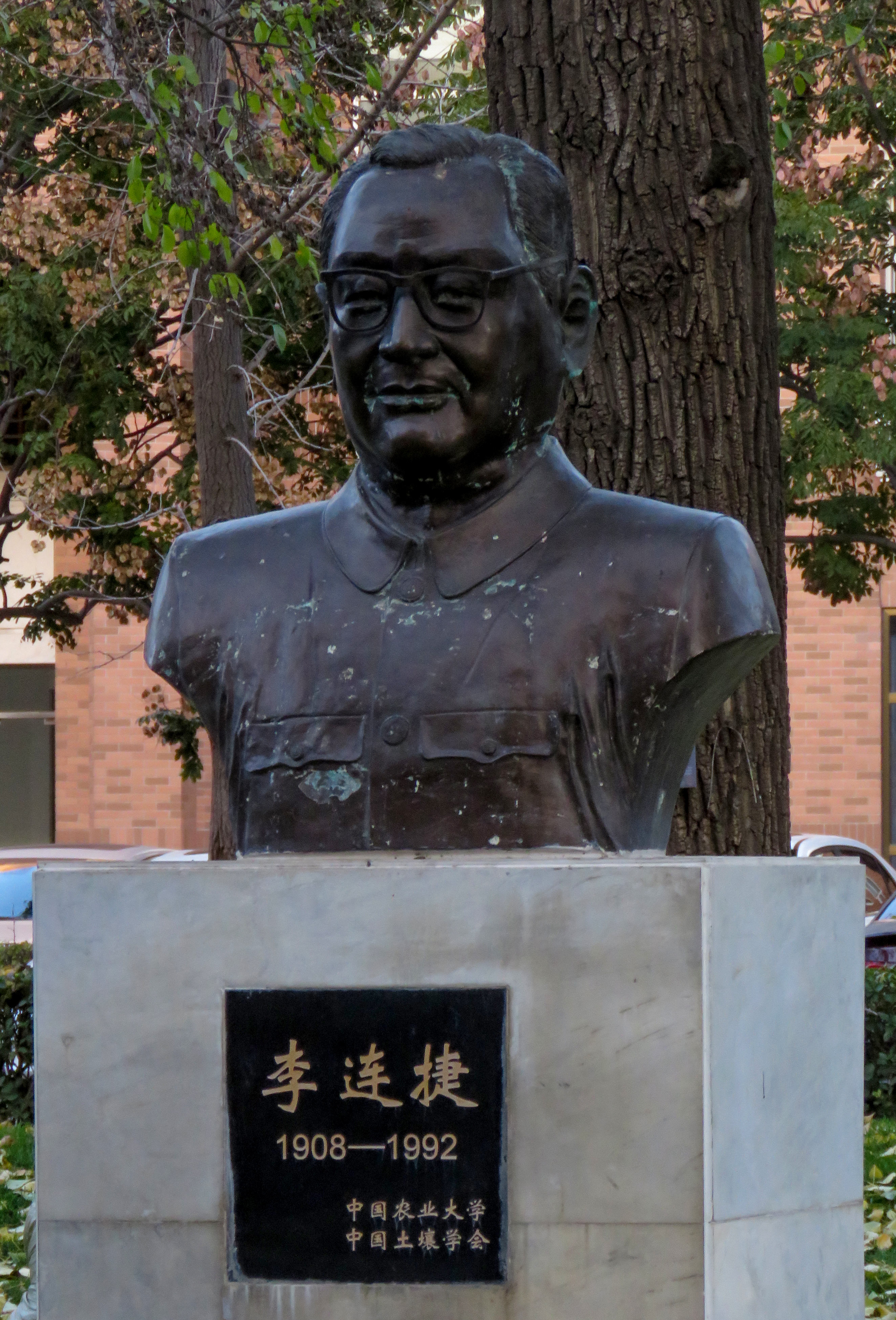 This soil scientist (1908-1992) is not to be confused with Jet Li...